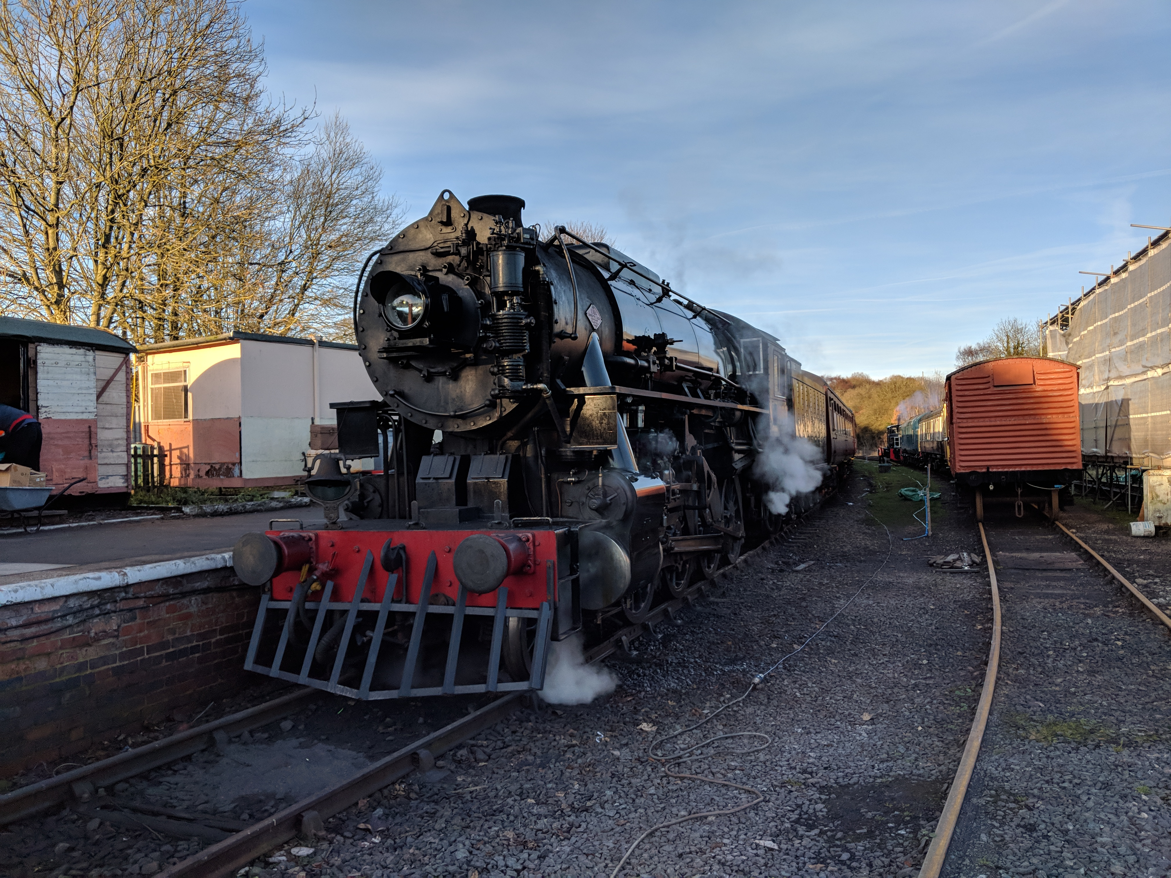 The polar express waiting at Spring village station ready to depart from Grand Rapids in 2017